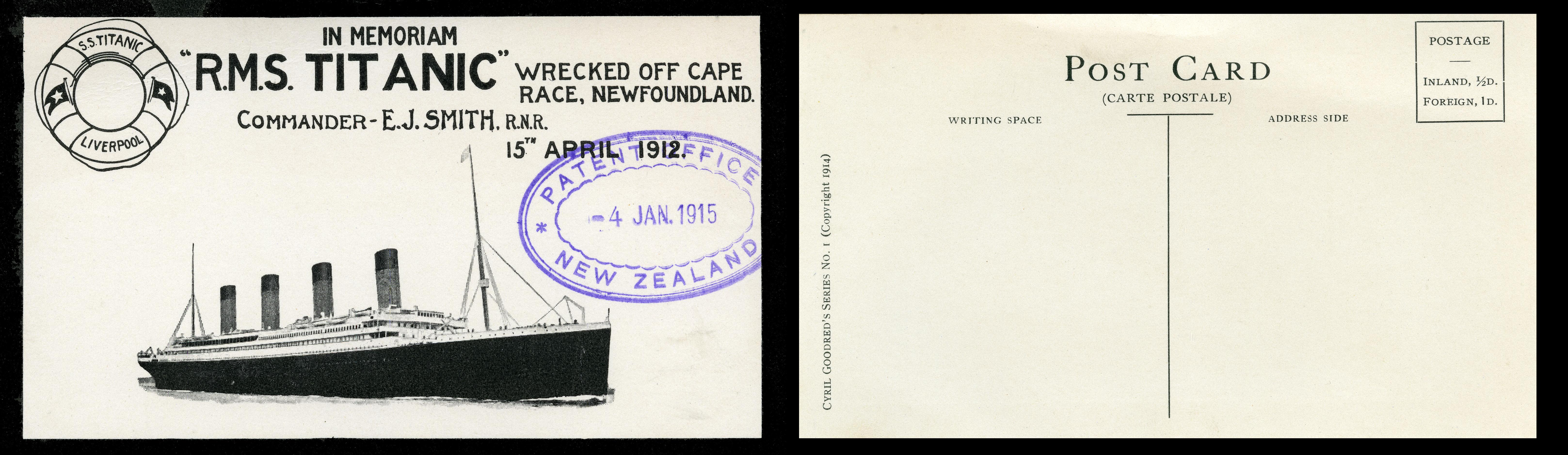 The RMS Titanic was a British passenger liner that sank in the North Atlantic Ocean on 15 April 1912, after it collided with an iceberg during her maiden voyage on route from Southampton, UK to New York, USA. The Titanic was the largest passenger ship afloat at that time and was operated by the White Star Line. The sinking of the Titanic caused the deaths of at least 1,500 passengers and remains one of the biggest peacetime maritime disasters in history. New Zealanders first learnt of the disaster on 16 April. As .nz notes, the first news came by cable and was necessarily brief. The Marlborough Express was wildly optimistic, but a day later, the optimism had evaporated. On 18 April at public meetings throughout the country, New Zealanders responded to the disaster. This postcard is from Archives New Zealand’s Patent Copyright files collection. On the 16th November 1914, Cyril Frederick William Goodreds of Corinthic Villa, Leighton Street, Grey Lynn, Auckland put forward a copyright request under the Copyright Act 1913. It was received by the Registrar of Copyright, JC Lewis, on 4 January 1915. Goodreds made the application under the category of Artistic work, titled in memoriam RMS Titanic. It was accepted after he had paid the fee of 5 shillings for the certificate of registration, which was then posted to him. The images above are the front and back of the postcard. Archives Reference: PC4 1915/1566 More about the NZ reaction can be found at For updates on our On This Day series and news from Archives New Zealand, follow us on Twitter Material from Archives New Zealand